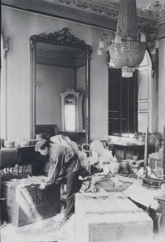 The Russian delegation in the proces of moving out of the Dehn Mansion in Bredgade in Copenhagen, Denmark.